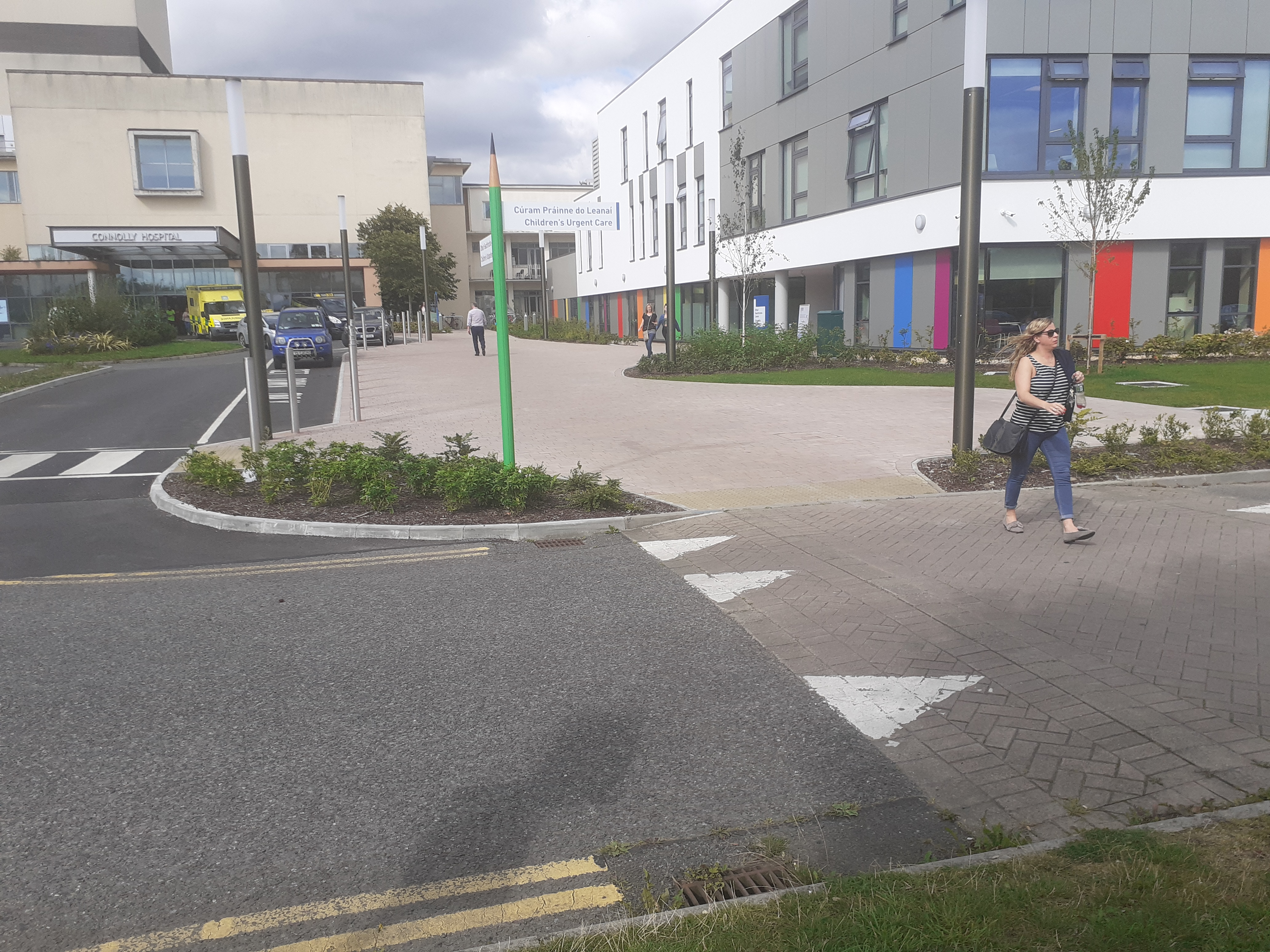 National Childrens Hospital Satellite Centre Connolly Hospital opened for work (2019).